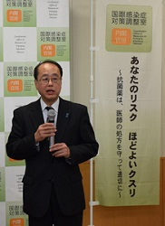 Hiroto Izumi, Special Advisor to the Prime Minister, addressed the commissioning ceremony on November 29, 2016.